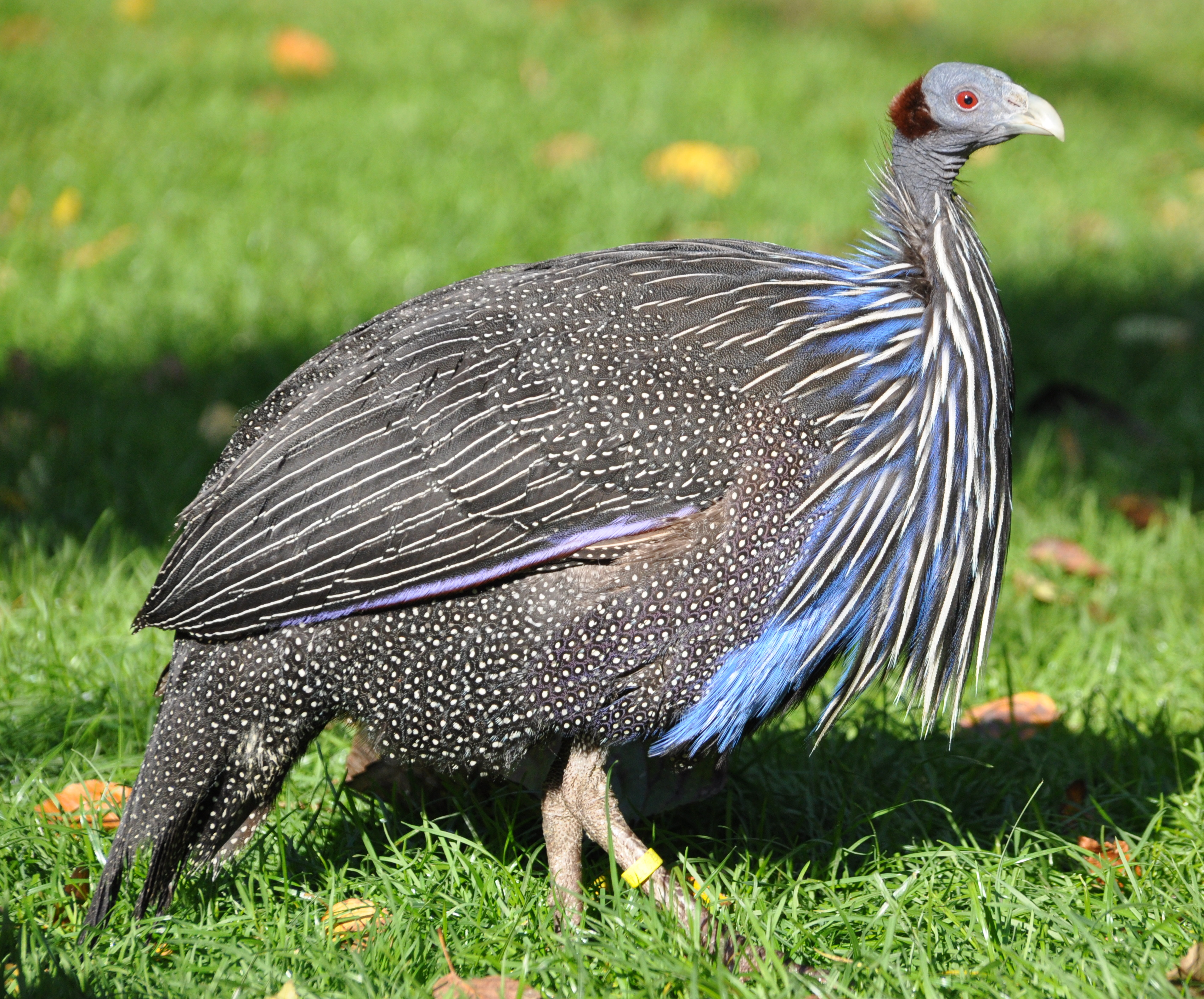 Vulturine Guineafowl(Acryllium vulturinum) in the Walsrode Bird Park, Germany.